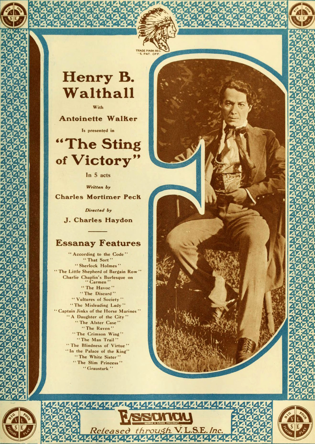 Advertisement in Moving Picture World for the American film The Sting of Victory (1916).